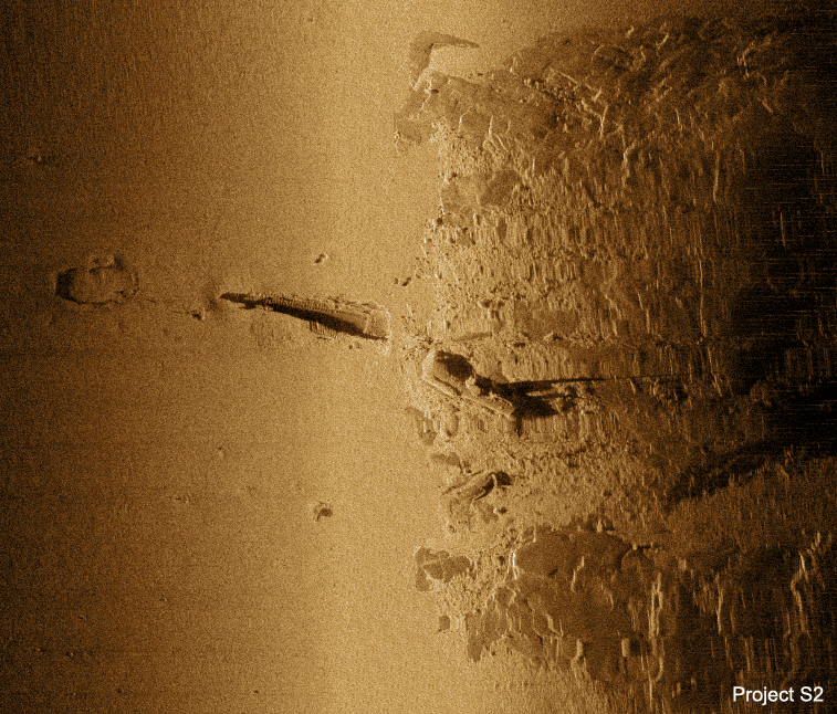 Sonar image from November 2008 of the wreck of Soviet submarine S-2